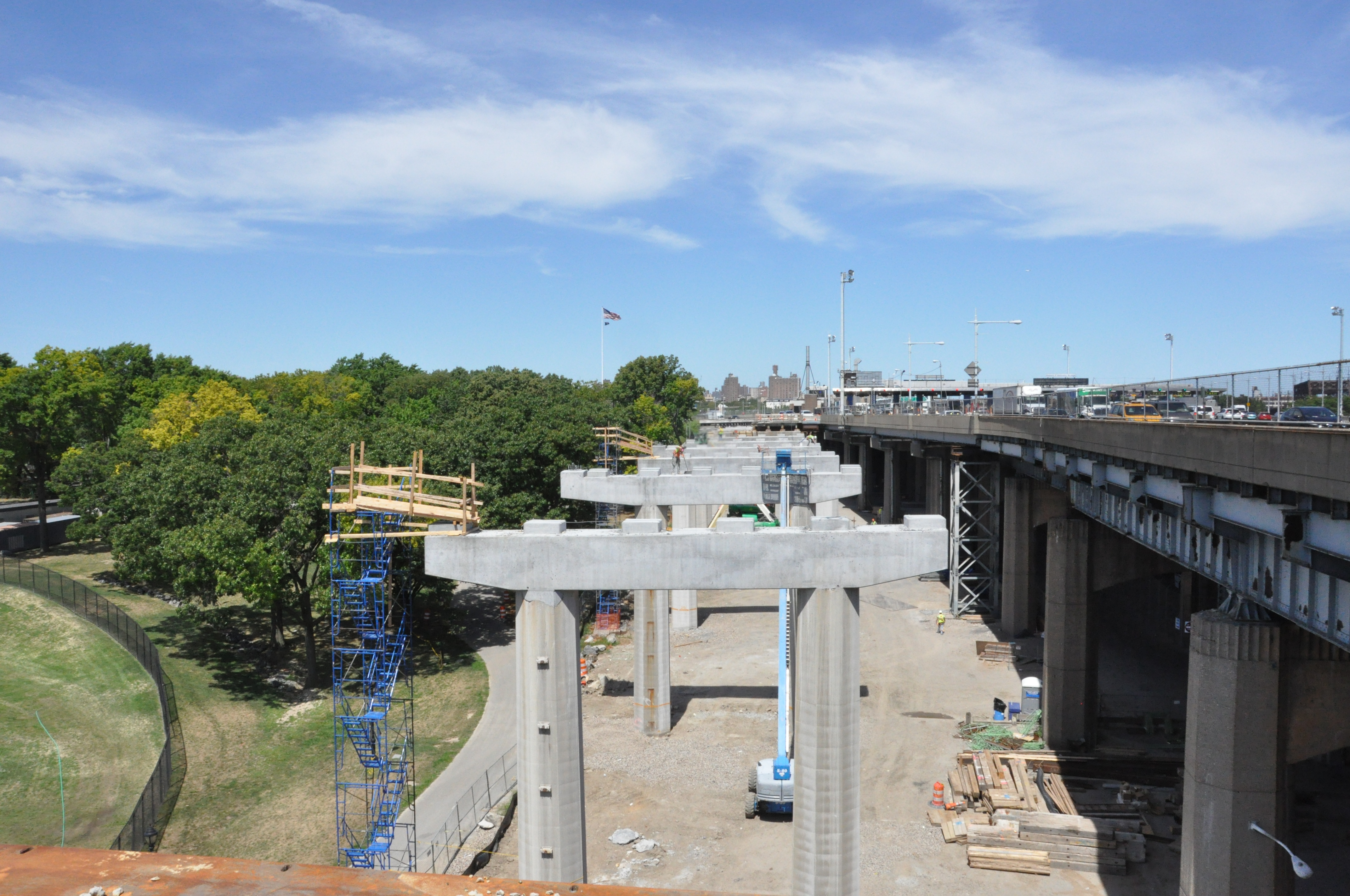 Progress photos of the Manhattan/Queens ramp at the Robert F. Kennedy Bridge. The 57-year-old ramp is being reconstructed under a $50 million project. Work began in July 2012 and is expected to be finished fall 2014. Photo: Courtesy of LIRO